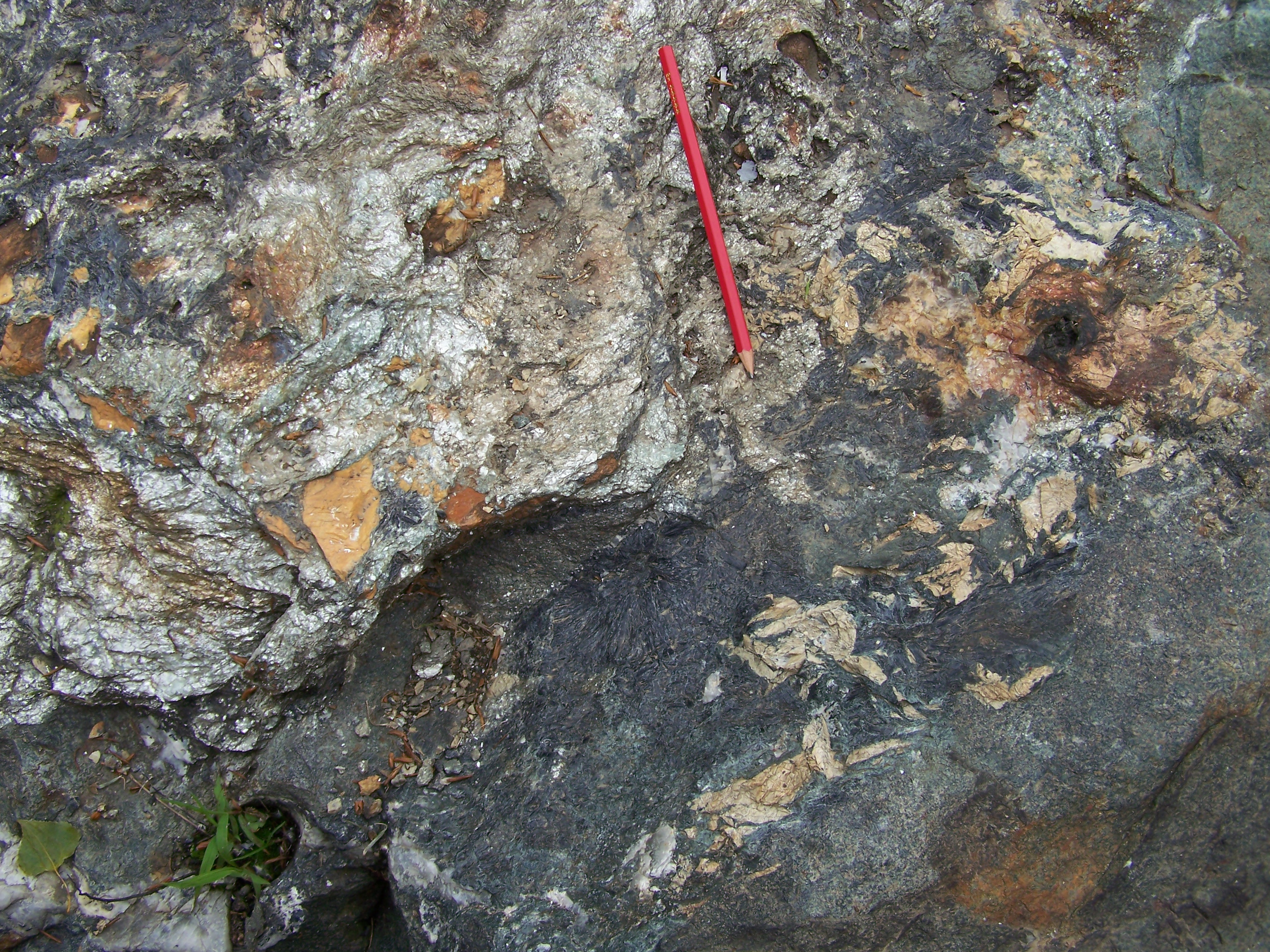 Edge of an eclogite boudin (lower half) in an orthogneiss matrix (Gneiss Minuti, upper half). The metamorphic reaction from eclogite (green from the mineral omphacite) to blueschist (purplish black needles are the mineral glaucophane, beige blocky mineral is zoisite) can be seen. External part of the Sesia zone at Quincinetto, Valle d'Aosta, Italian Alps.